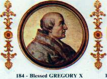 Portrait of Pope Gregory X in the Basilica of Saint Paul Outside the Walls, Rome